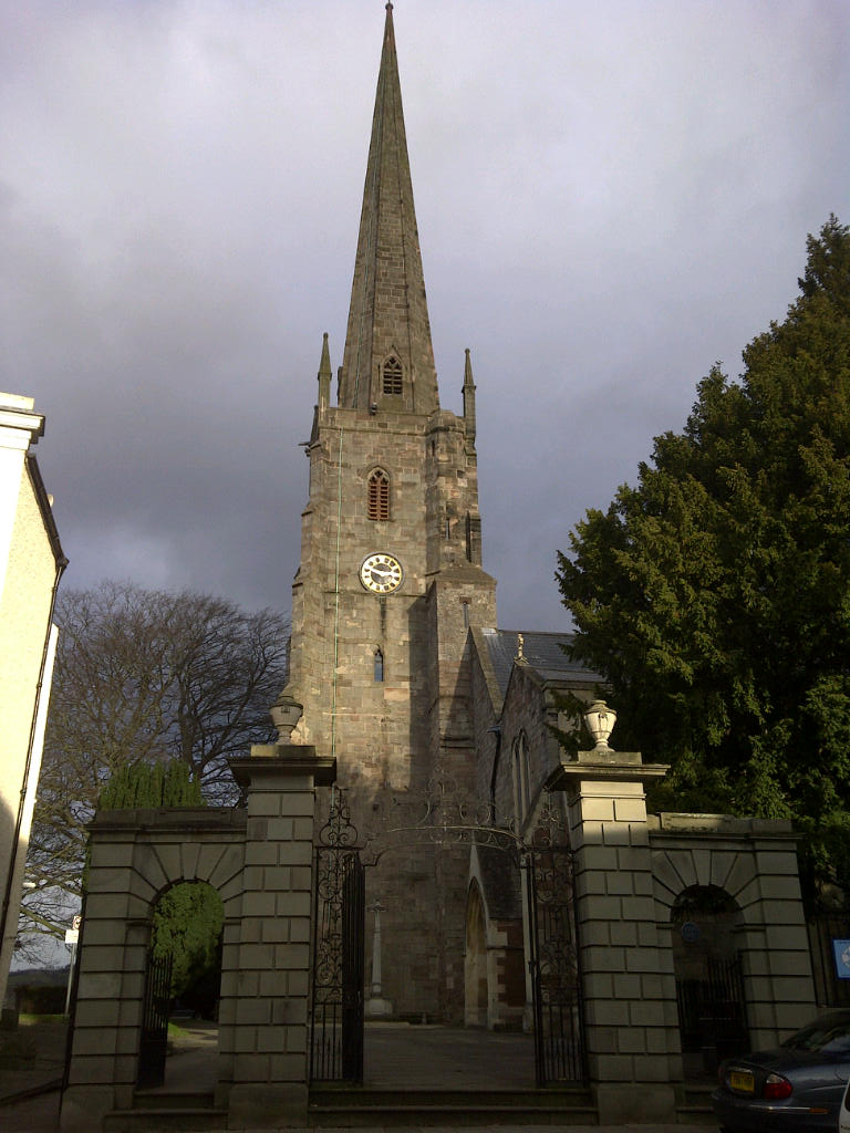 St. Mary's Priory Church, Monmouth